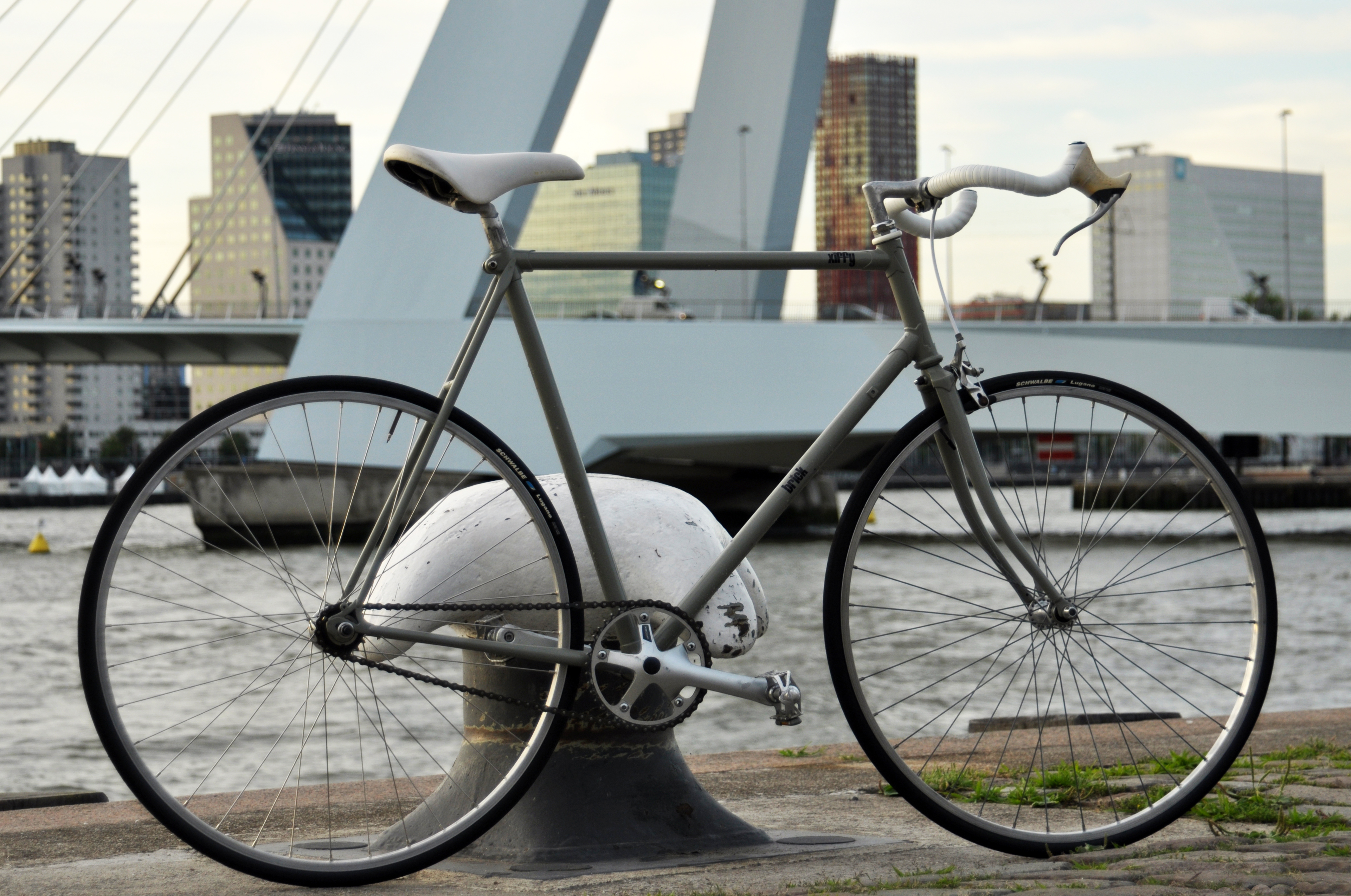 Converted racing Batavus makes a great city-bike. Bike colour: RAL-Color 7023